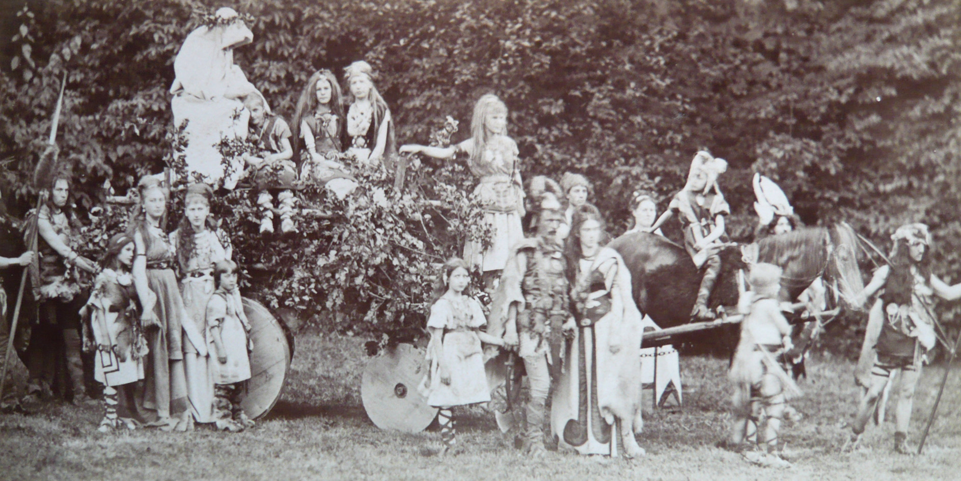 Photo of the Festival of the "Malkasten Düsseldorf" to commemorate the visit of Emperor Wilhelm I., directed by Carl Hoff (1838-1890)